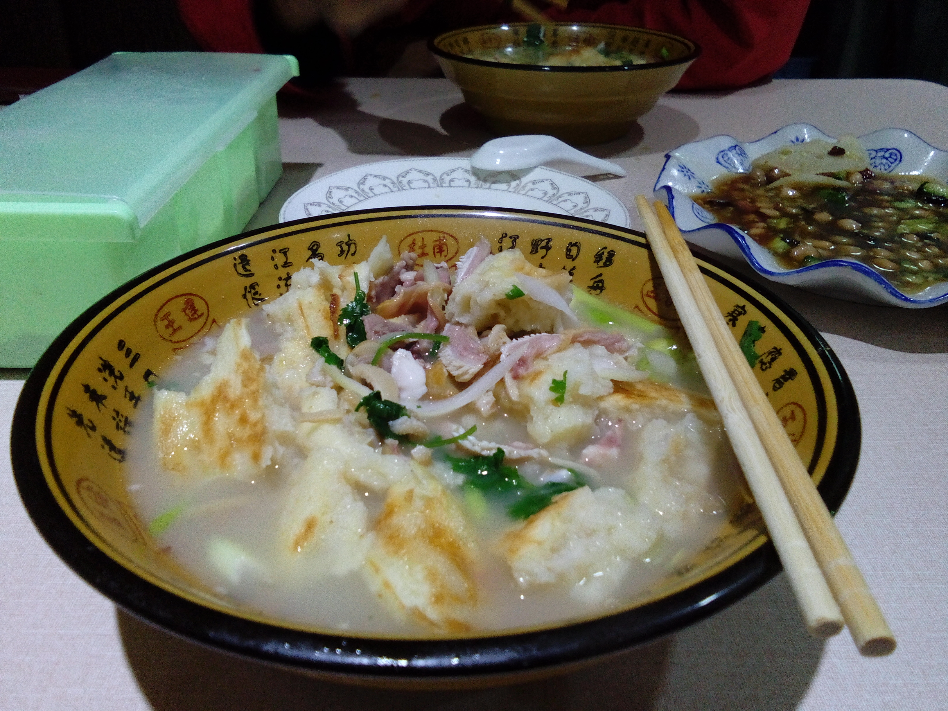 Longyao mutton soup.